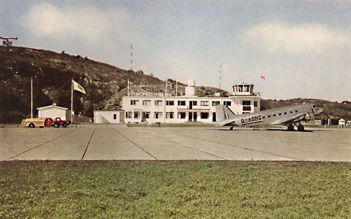 Gothenburg Torslanda Airport in the first half of 1950's